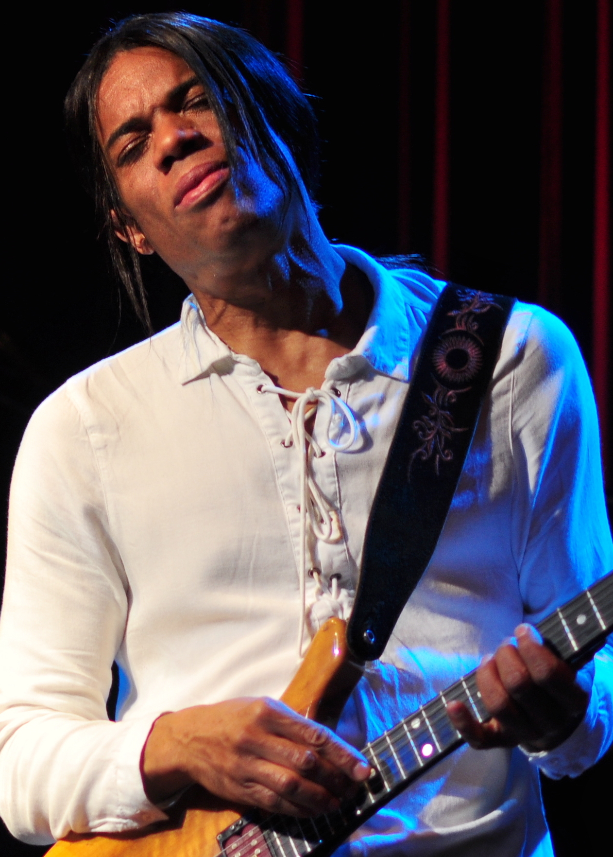 Stanley Jordan (born July 31, 1959) is an American jazz/jazz fusion guitarist, best known for his development of the touch technique for playing guitar. Shown here performing at Jazz Alley, Seattle, Washington, U.S.